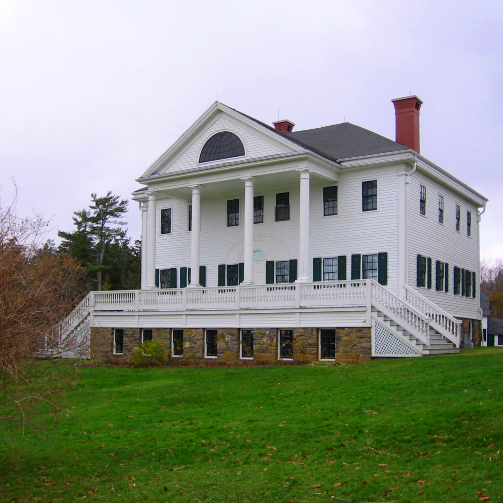 Picture of Uniacke House, Mount Uniacke Nova Scotia.